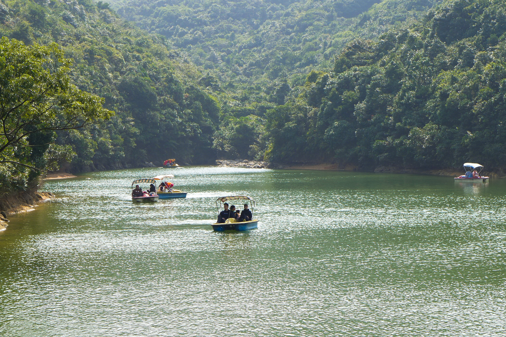 Wong Nai Chung Reservoir Playing boat